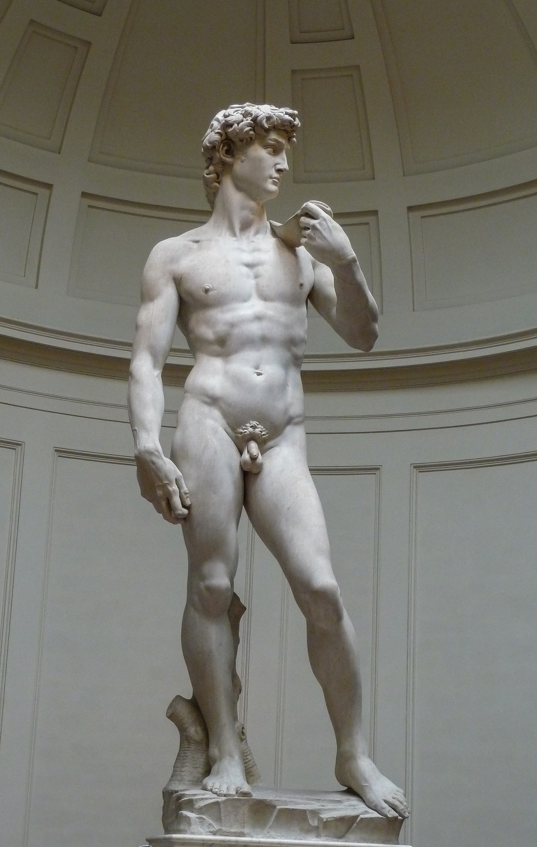 Michelangelo's David, 1501-1504, Galleria dell'Accademia (Florence)